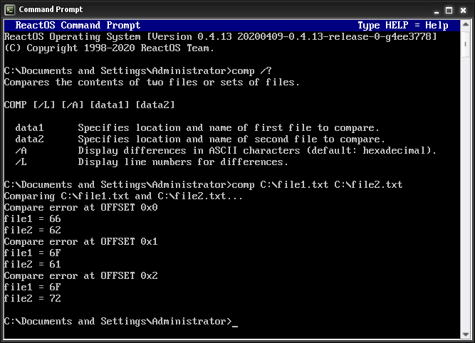 comp command on ReactOS-0.4.13